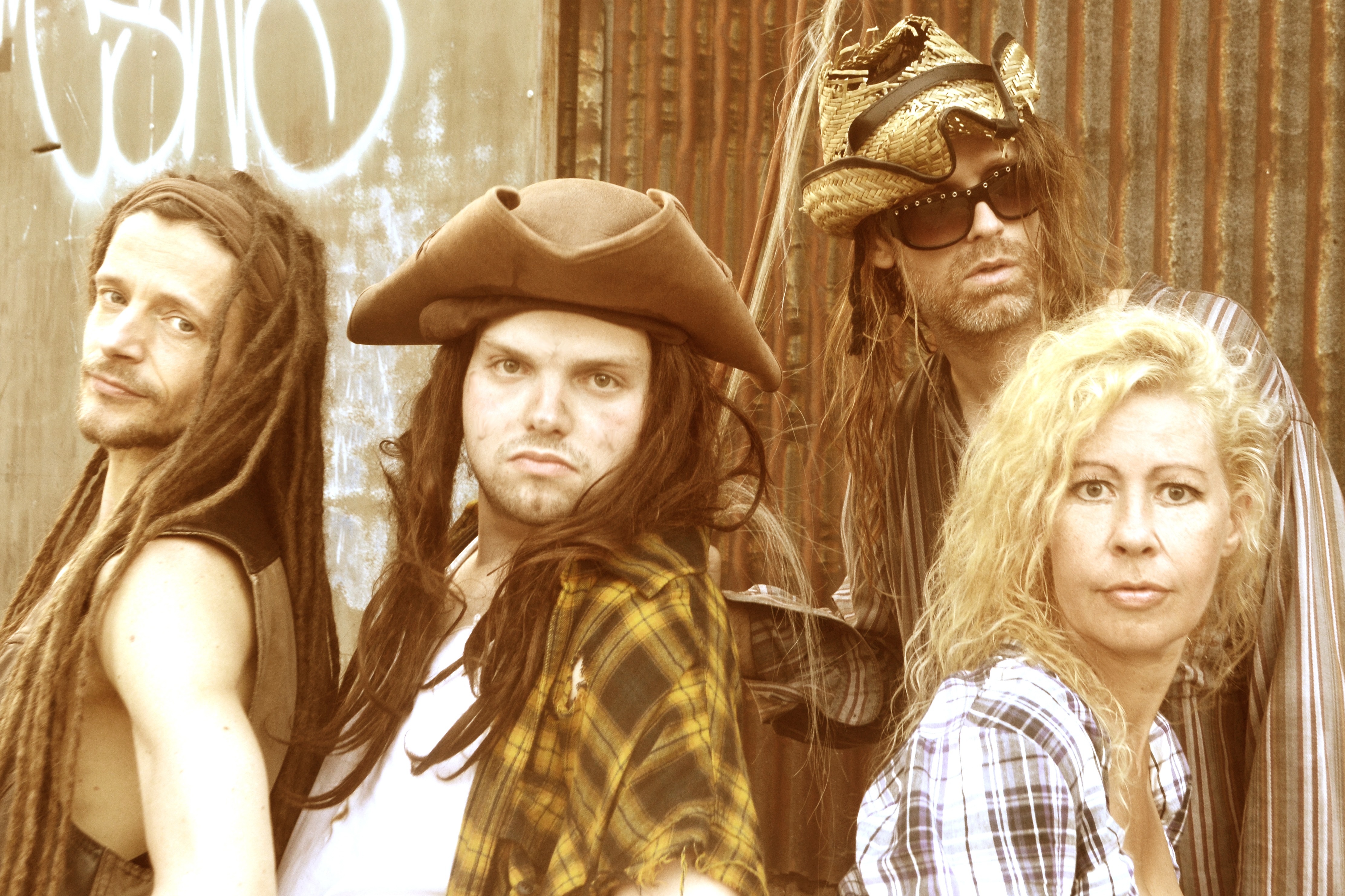 Rednex in July 2018 featuring Ace Ratclaw, Pervis The Palergator, Spades, Misty Mae